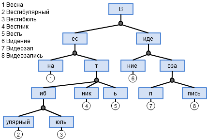 Radix trie example for Russian